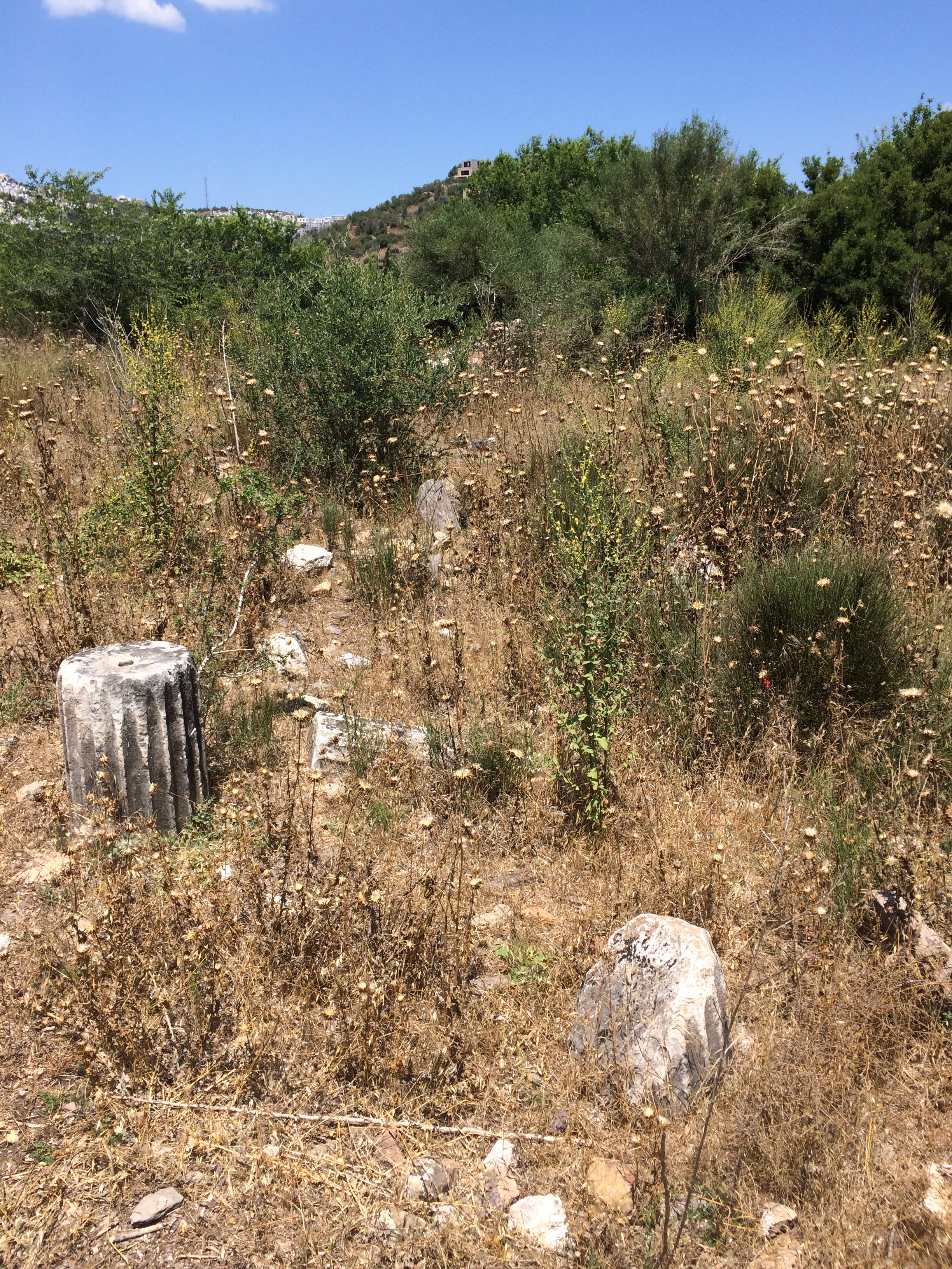 This photo depicts the ruins of fluted columns at the archaeological site of Bargylia.